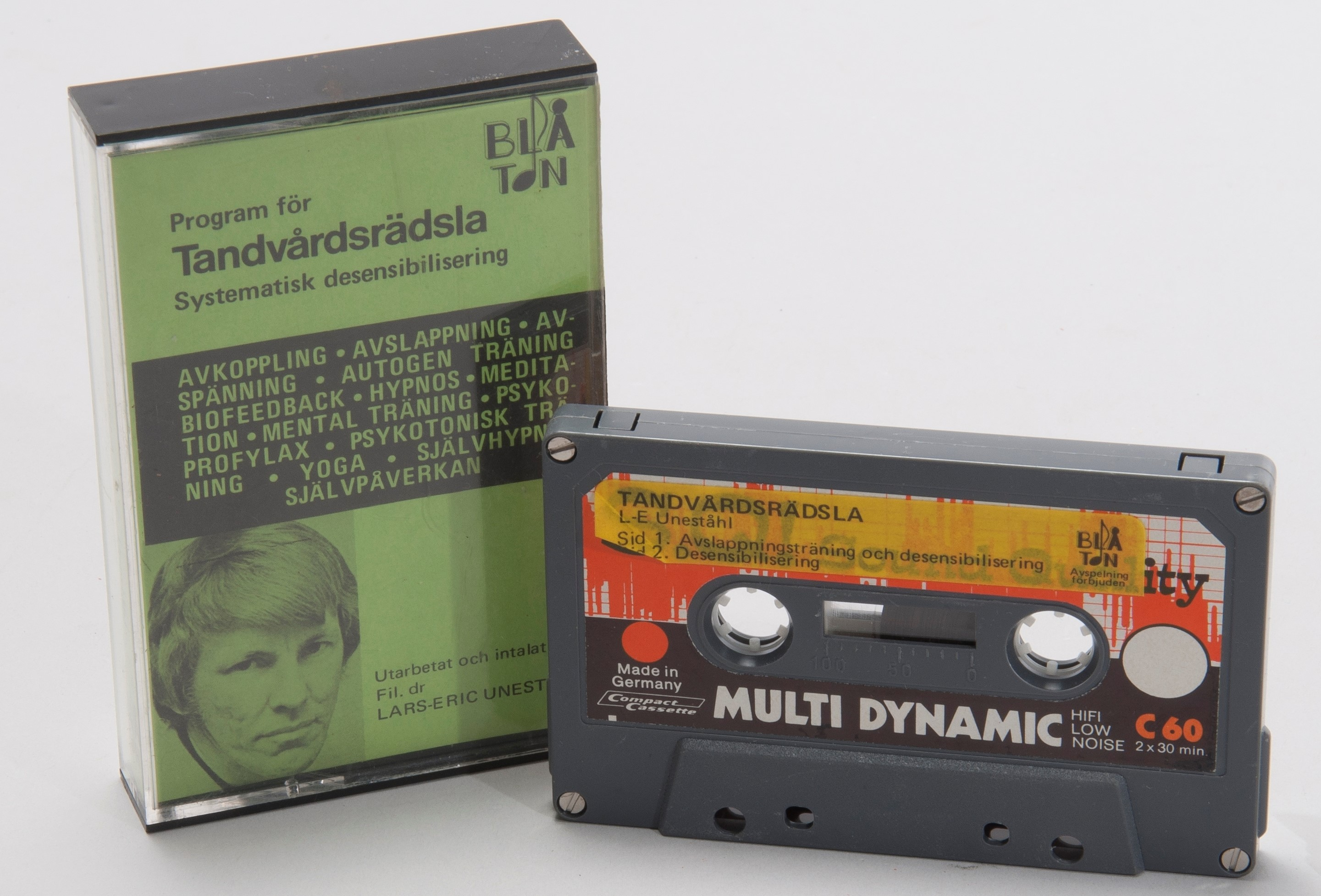 A cassette for mental training against dental fear by Swedish psychologist Lars-Erik Uneståhl